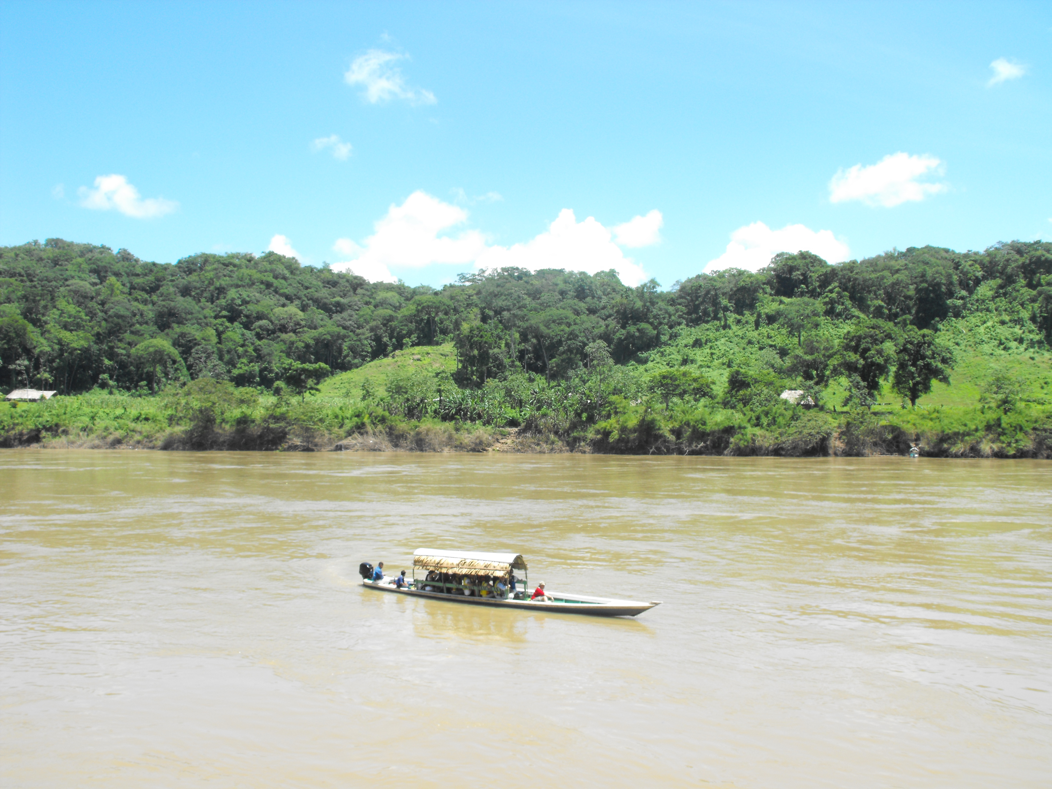 Usumacinta river from Yaxchilan - Chiapas - Mexico